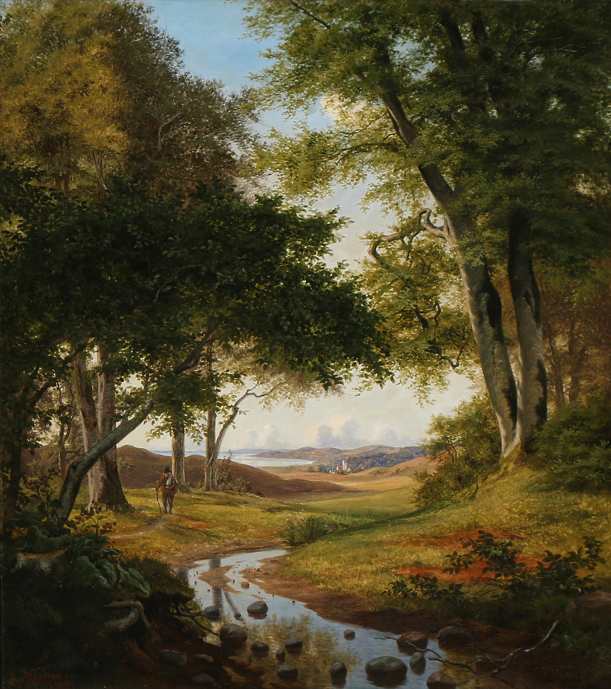 The painting shows the woods of Stokkebjerg, the village of Jyderup and the lake Skarresø (then known as Skarrit Sø).